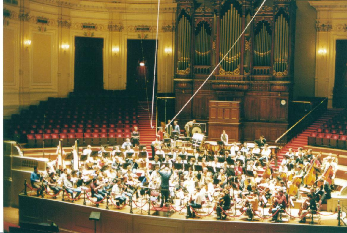 Krashna Dress Rehearsal Concertgebouw 2000